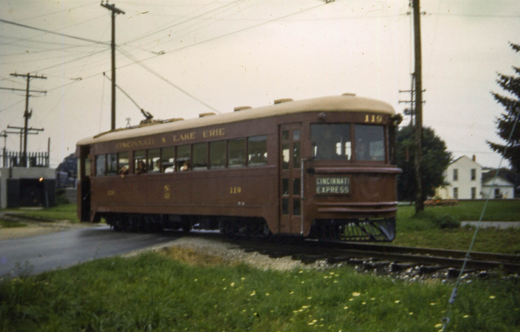 19660813 05 C&LE 119 Ohio Railway Museum-3